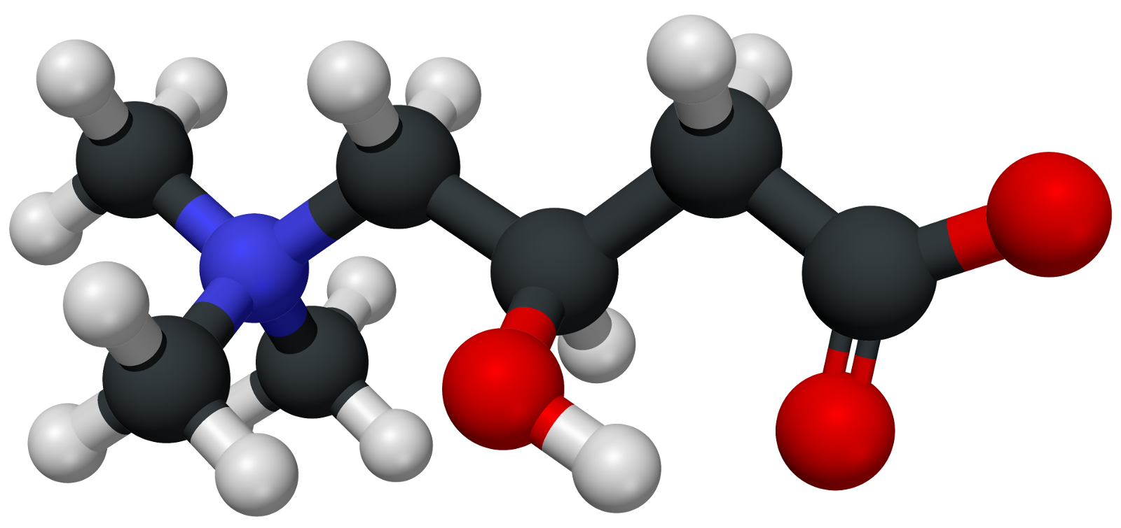 Ball-and-stick model of an (S)-carnitine molecule. Structure obtained using X-ray diffraction. Original paper: Ng, S. (2012). ( R )-(3-Carboxy-2-hydroxypropyl)trimethylazanium chloride. Acta Cryst E, 68(5), pp.o1416-o1416. Image created with Avogadro, Discovery Studio 4.5 and GIMP 2.